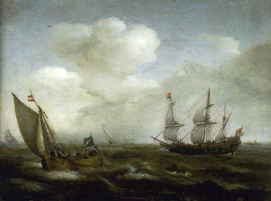 A Dutch Ship and a Kaag in a Fresh Breeze